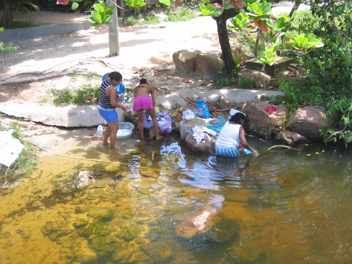 Washing clothes in the River, Imbassai, Bahia, Brazil